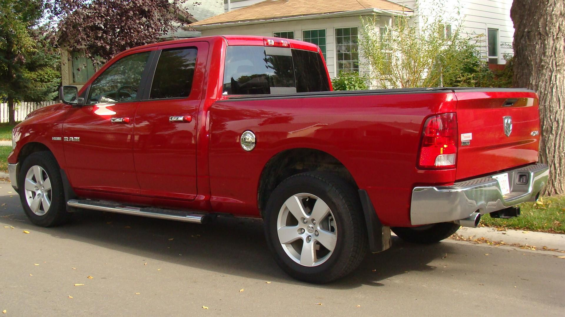 Brand new Dodge Ram. Inferno Red. Every available option,including automatic darkening side & rear view mirrors for night when the car behind has bright lights. Expensive model. (It would explain 52,Grand).